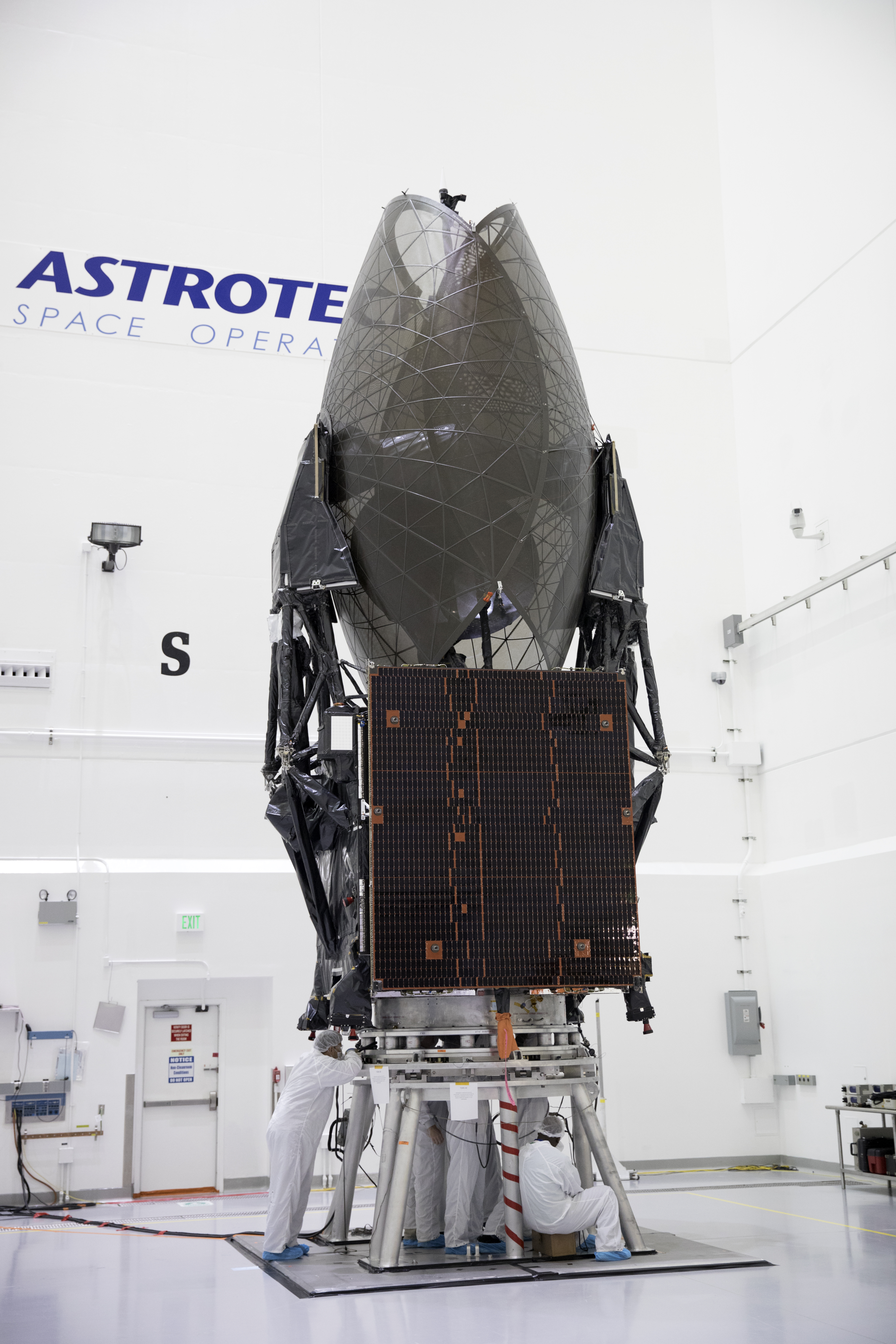 Inside the Astrotech facility in Titusville, Florida, NASA's Tracking and Data Relay Satellite, TDRS-M, is undergoing final checkouts prior to encapsulation in its payload fairing. TDRS-M is the latest spacecraft destined for the agency's constellation of communications satellites that allows nearly continuous contact with orbiting spacecraft ranging from the International Space Station and Hubble Space Telescope to the array of scientific observatories. Liftoff atop a United Launch Alliance Atlas V rocket is scheduled to take place from Space Launch Complex 41 at Cape Canaveral Air Force Station at 9:02 a.m. EDT Aug. 3, 2017.